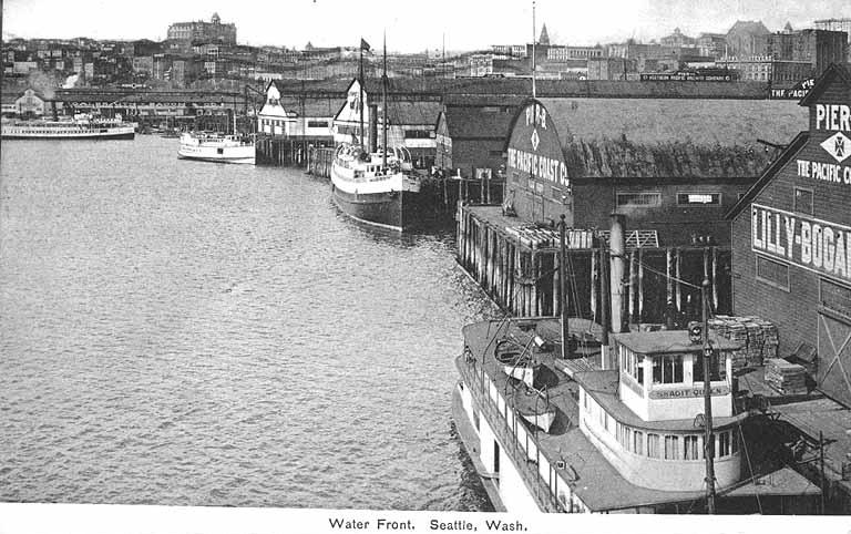 Postcard of Elliott Bay and the Seattle waterfront; at right is the Pacific Coast Co. dock (a.k.a. Lilly Bogardus Dock), ca. 1906 (this is from a 1907 postcard). In the background is the Washington Hotel (earlier known as the Denny Hotel) atop Denny Hill. Shortly after this photo was taken, the hotel was demolished and that portion of the hill was regraded.